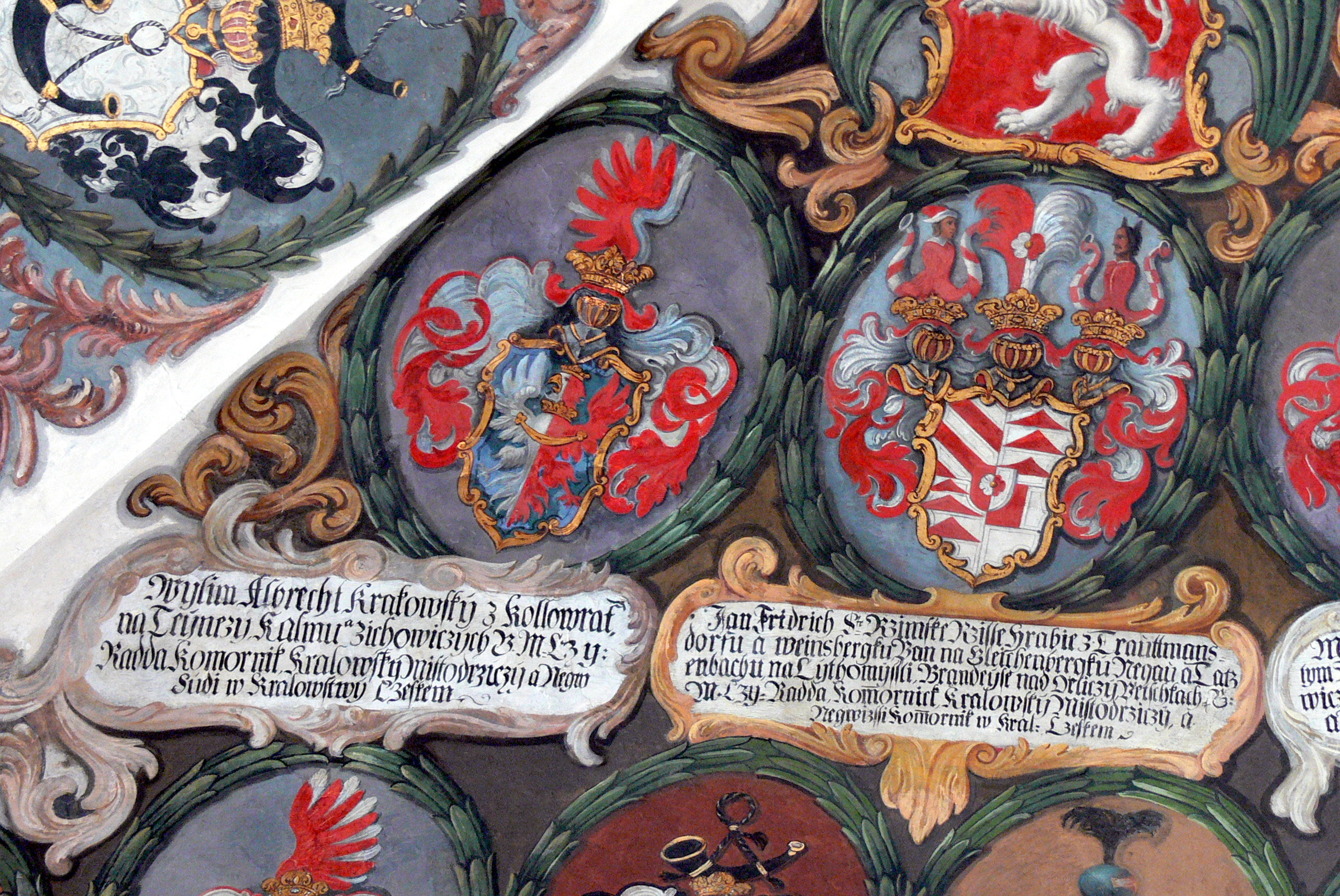 Office of the Bohemian Land Rolls (Prague Castle). Coats of arms of members of the Kolowrat and Trautmannsdorf families.